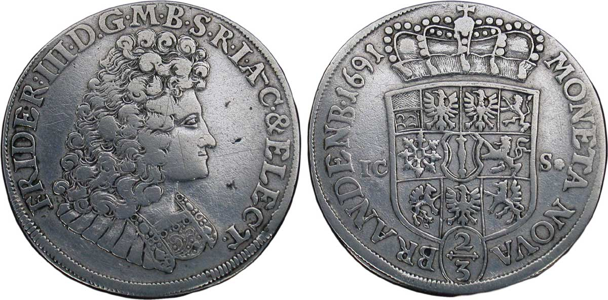 Deux tiers de thaler de Brandebourg à l'effigie de Frédéric III, 1691